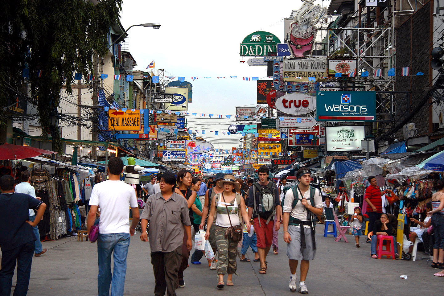 Khaosan_road